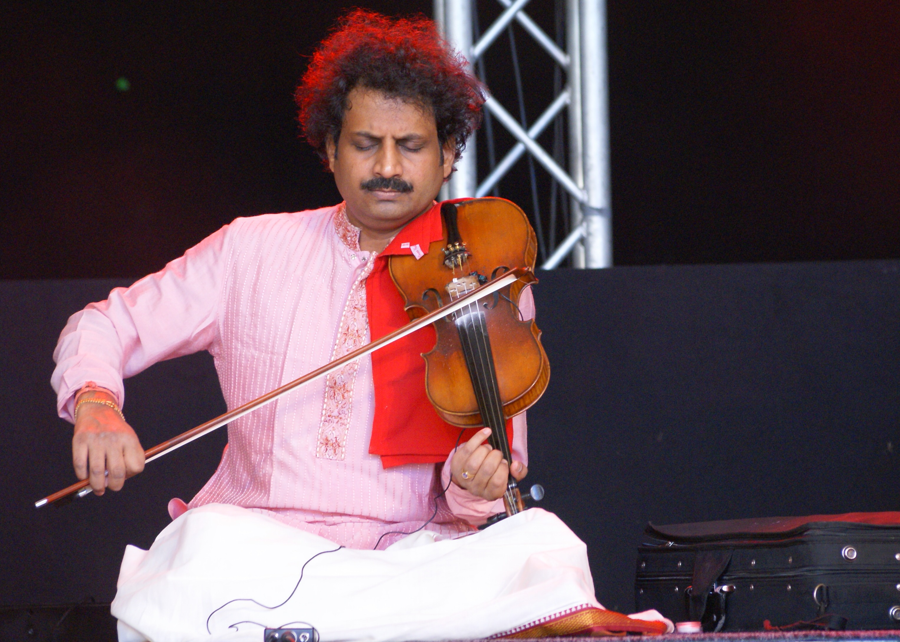 Dr. Mysore Manjunath performing with Spinifex at Nijmegen, The Netherlands on May 26, 2012